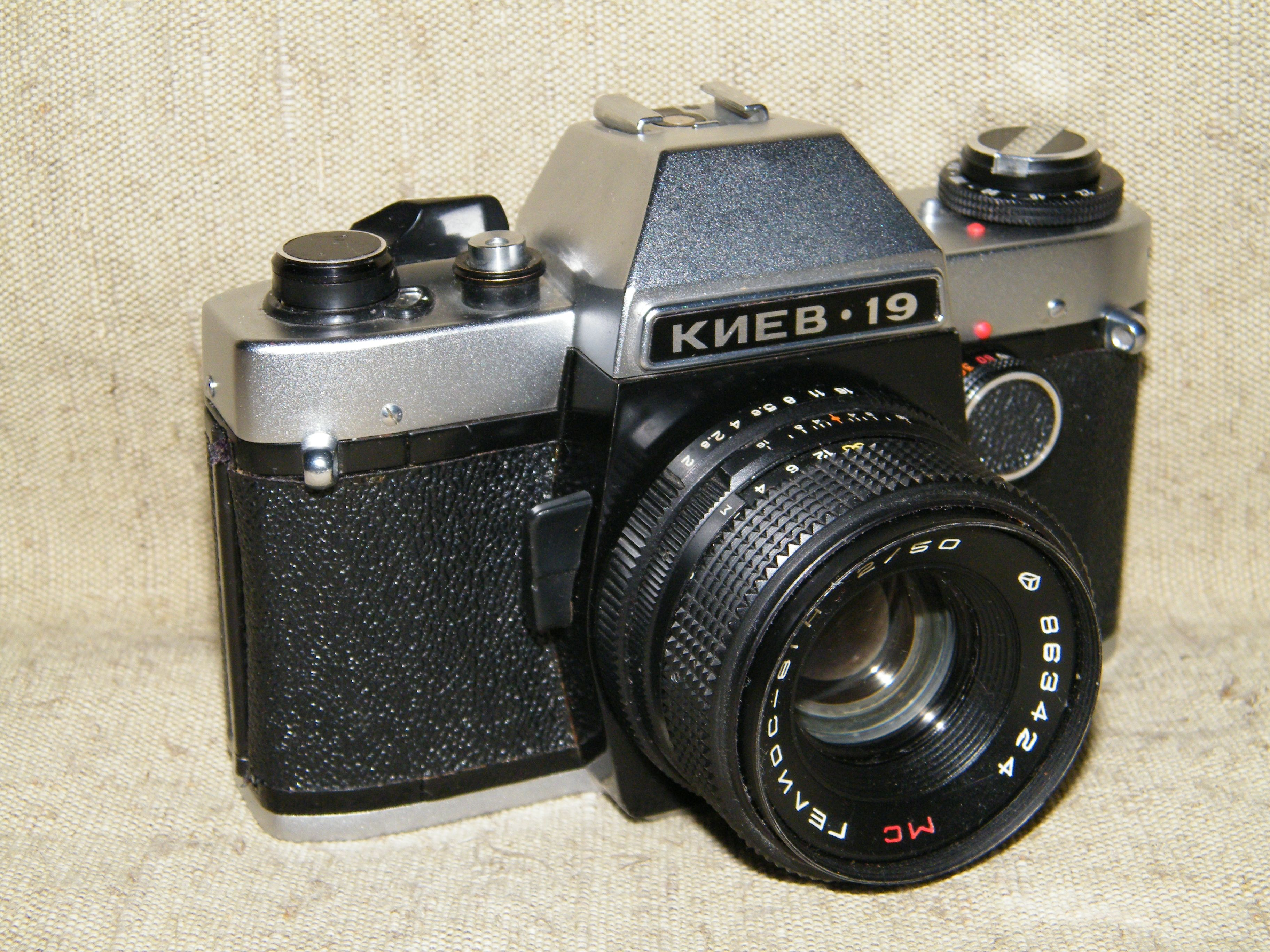 Kiev 19